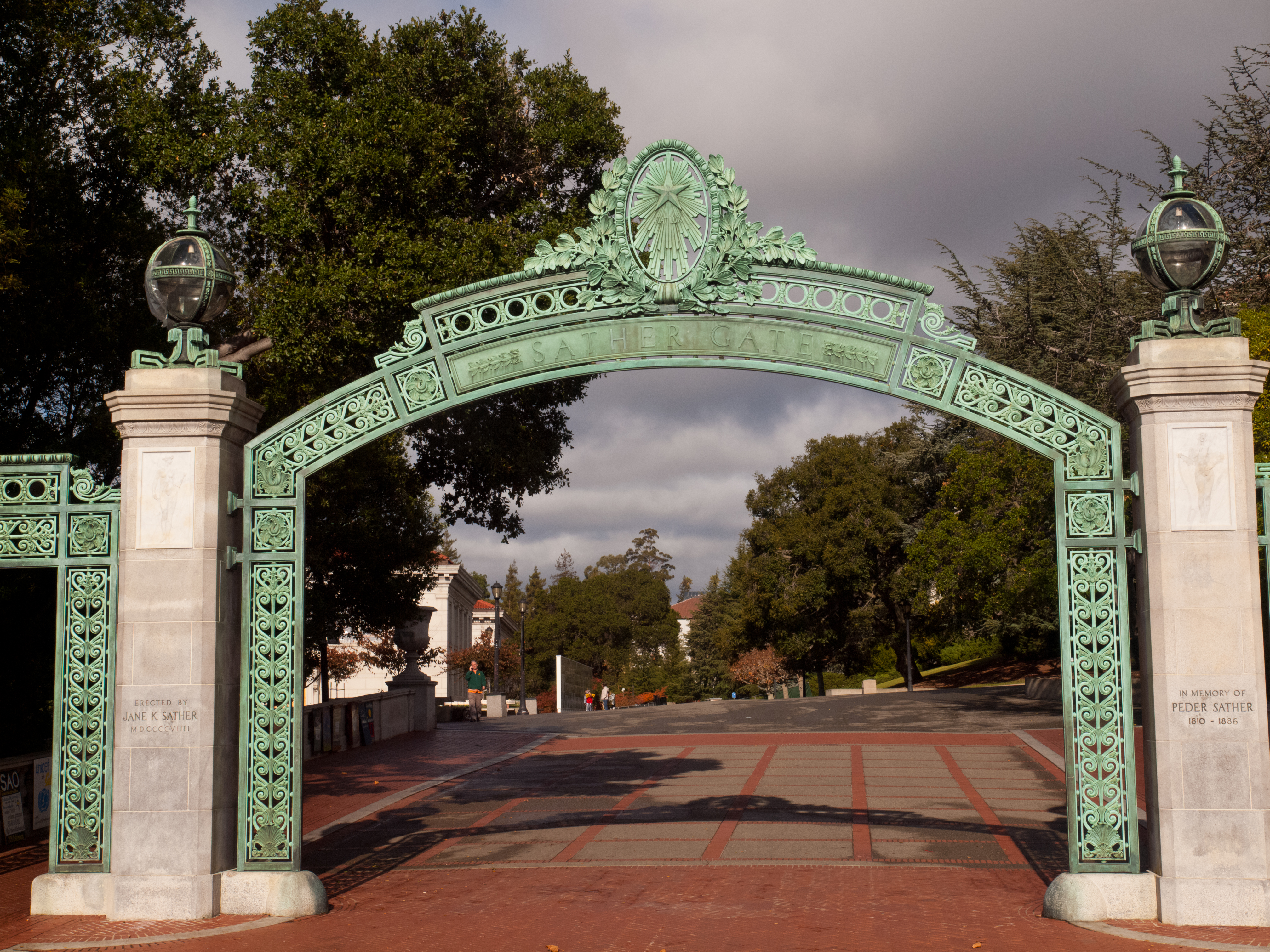 Sather Gate was built in 1910 as the south entrance to the University of California campus, from Telegraph Avenue. The university has since expanded to the south, and the gate is in the middle of the campus. It was donated by Jane Sather, the widow of banker Peder Sather, who was a trustee of the university.